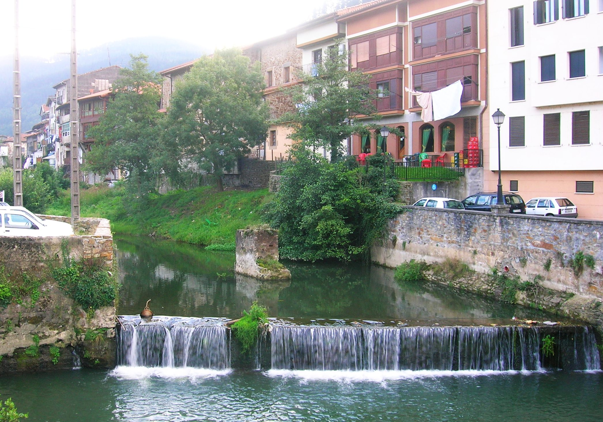 River Arratia in Villaro-Areatza, Biscay, Spain., as seen from the Old Bridge.